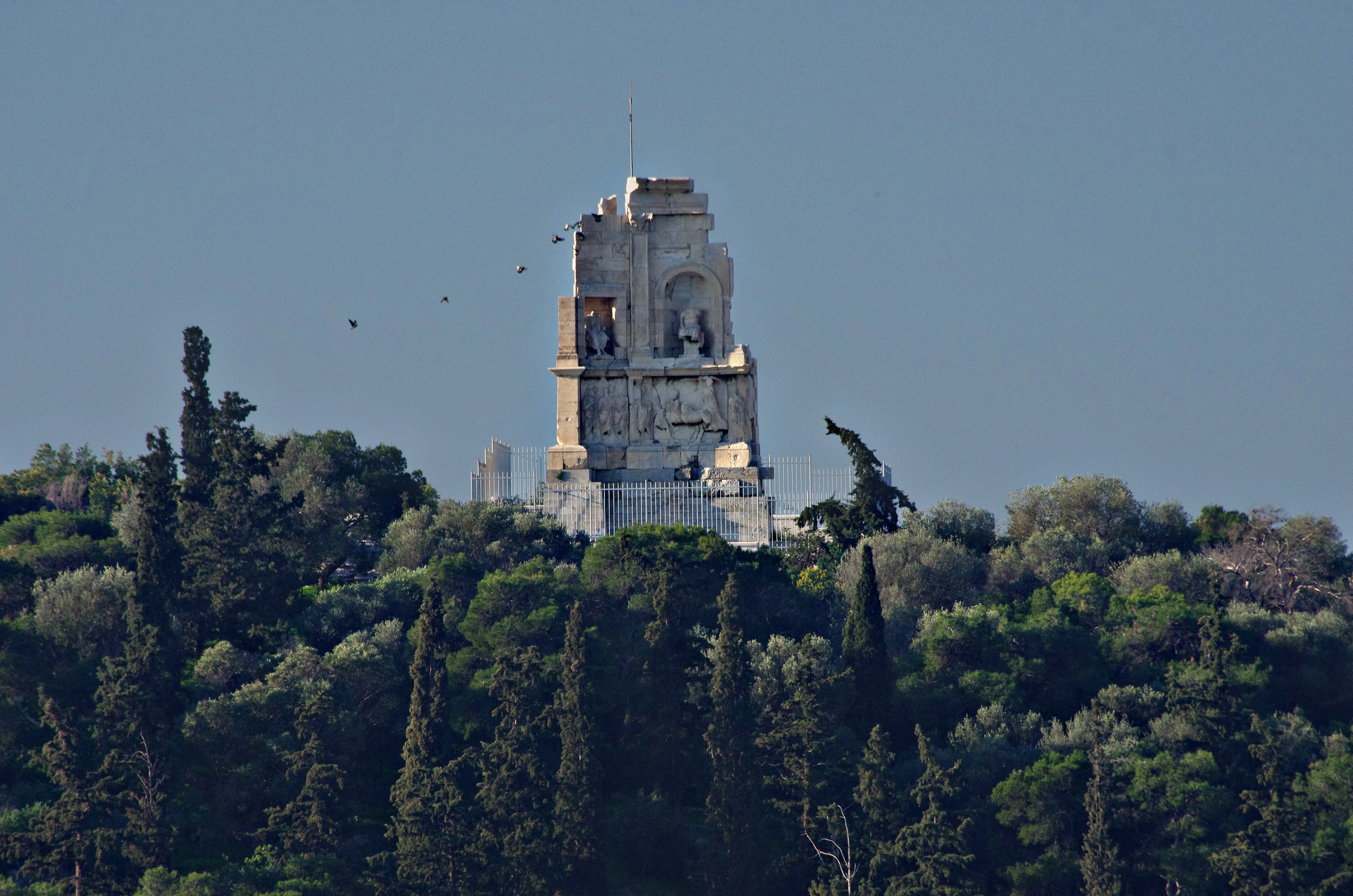 02 2020 Grecia photo Paolo Villa FO190122 bis Mausoleum or Monument to Gaius Julius Antioco Epiphanes Filopappo-Roman Art-view from the Acropolis - olive trees, aleppo pines, cypresses - with gimp PAOLO VILLA VERONA ITALY (first edition )